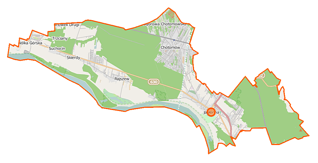 Map of Gmina Jabłonna, Poland This map of Jabłonna (gmina w województwie mazowieckim) was created from OpenStreetMap project data, collected by the community. This map may be incomplete, and may contain errors. Don't rely solely on it for navigation. Border coordinates52.437420.7302←↕→21.012452.3490